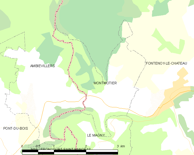 Map of French municipality Montmotier